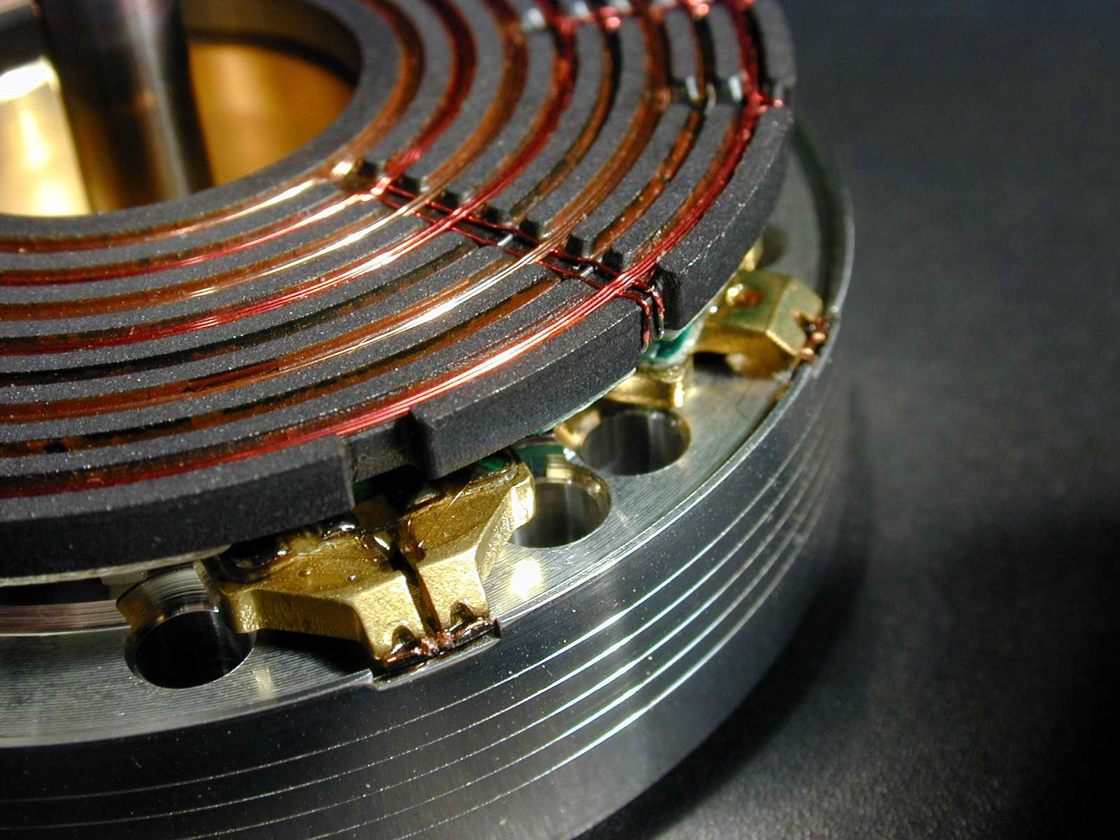 The rotating portion of a 6 channel rotary transformer used in a six-head ("4 head" Hi-Fi NTSC VHS) VCR, showing three of the six heads on the head drum.